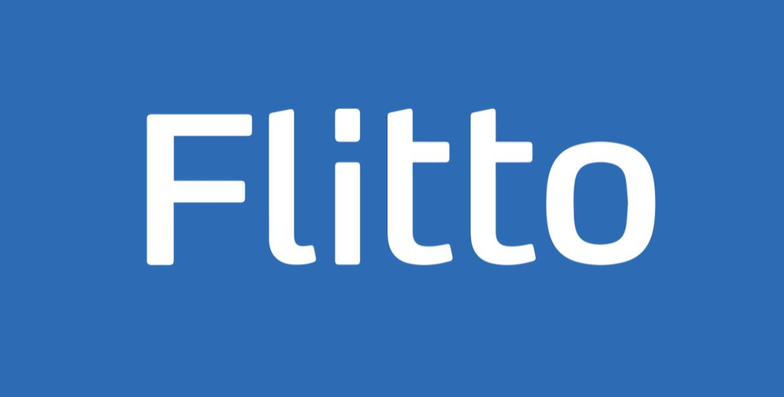 Flitto Company Logo